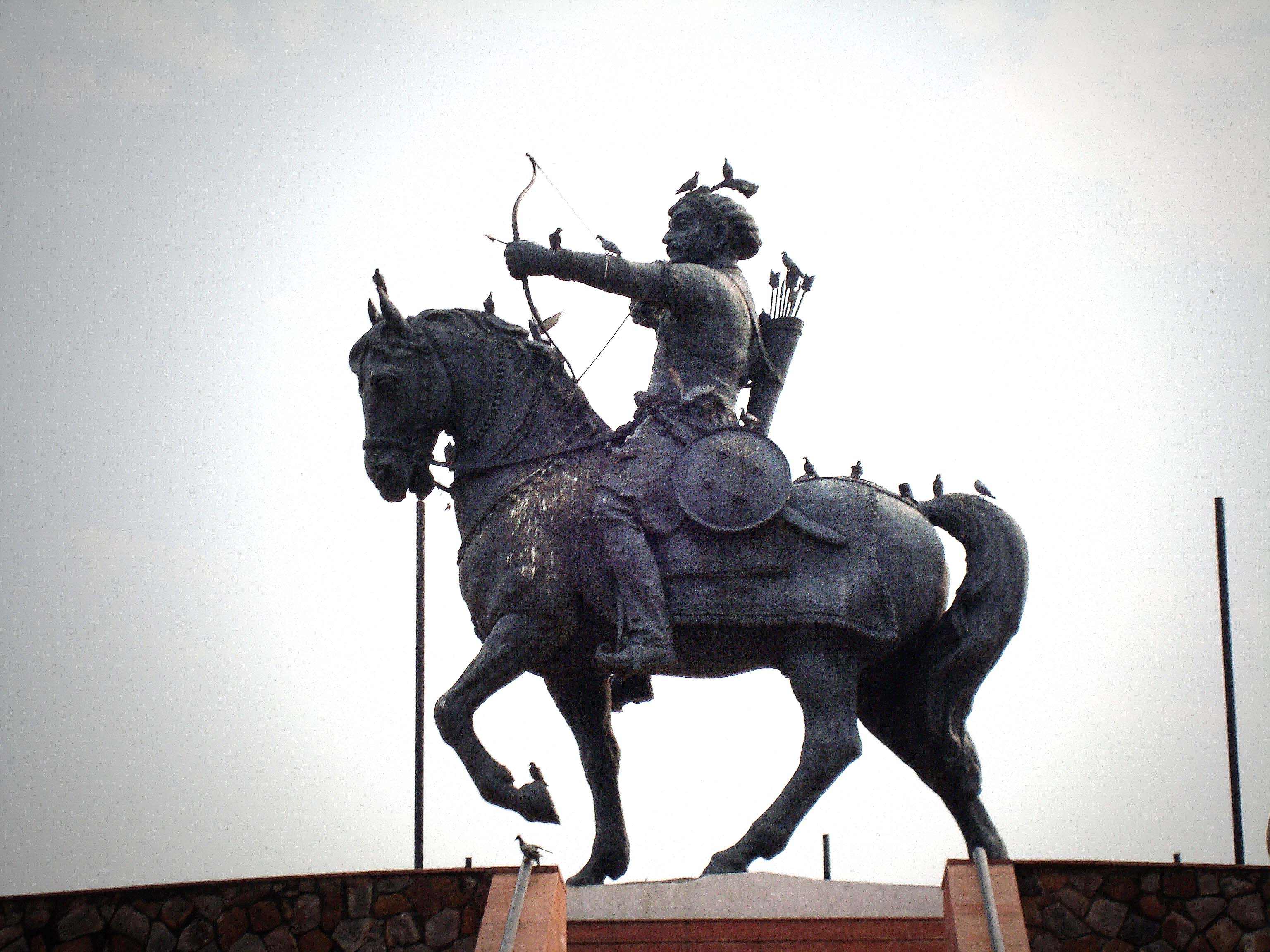 Ramp and gateway of Rai Pithora's Fort